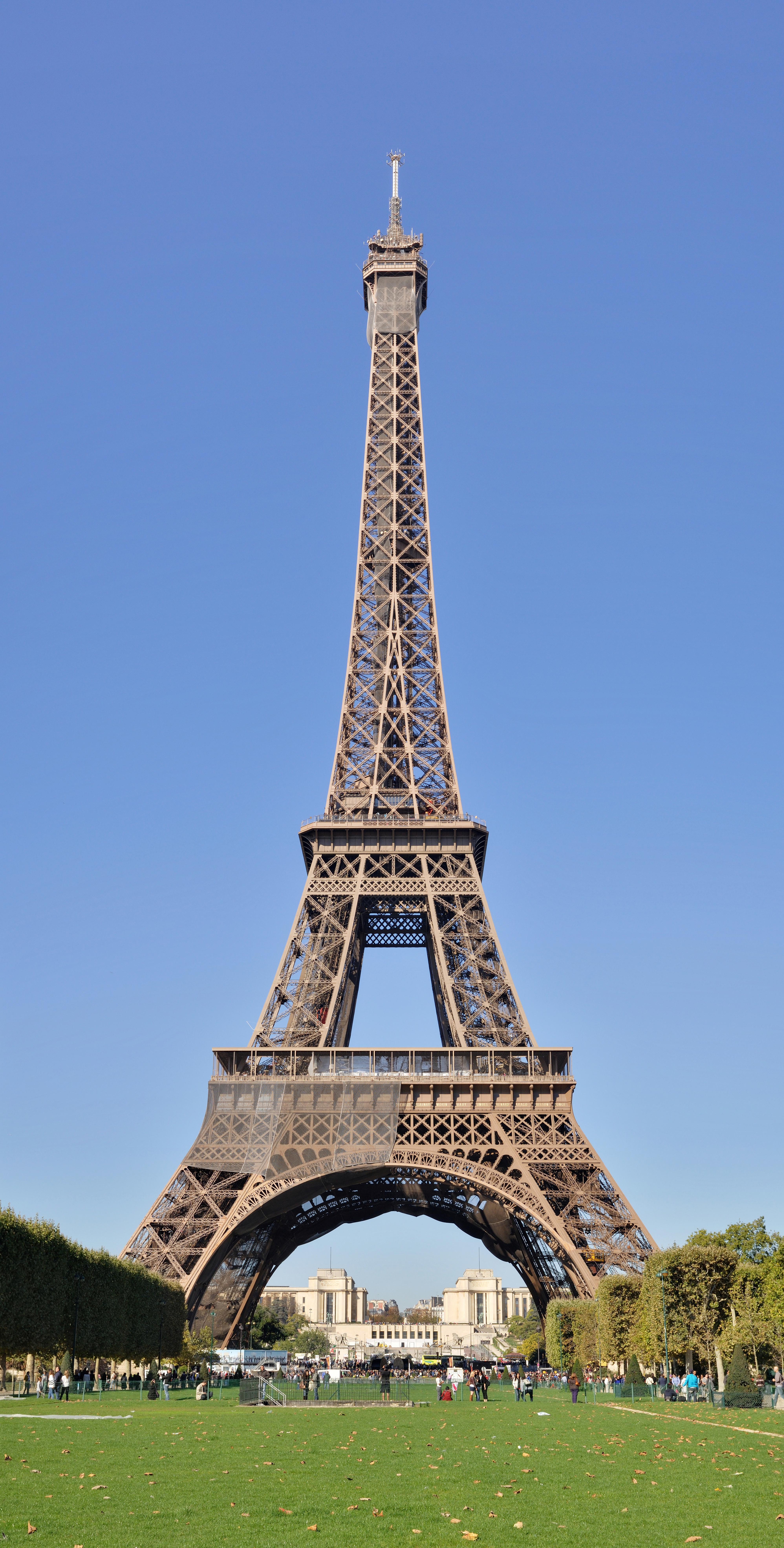 Paris: Eiffel tower